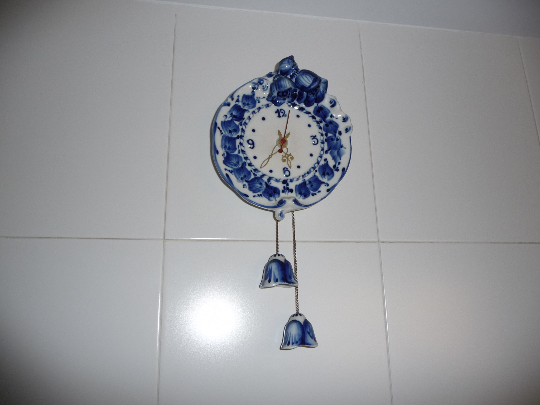 Clock made of Gzhel